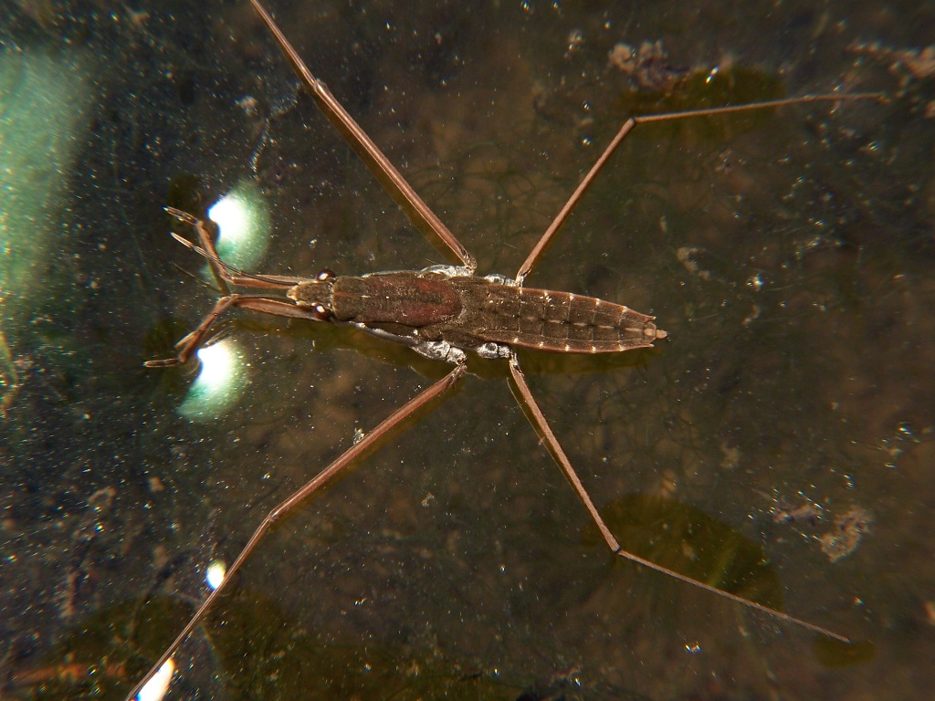 .jpg image, adult water strider, Gerris remigis Order Hemiptera / Suborder Heteroptera / Infraorder Gerromorpha / Superfamily Gerroidea Family: Gerridae (Leach, 1815) -- water striders / Genus: Gerris (Fabricius, 1794)